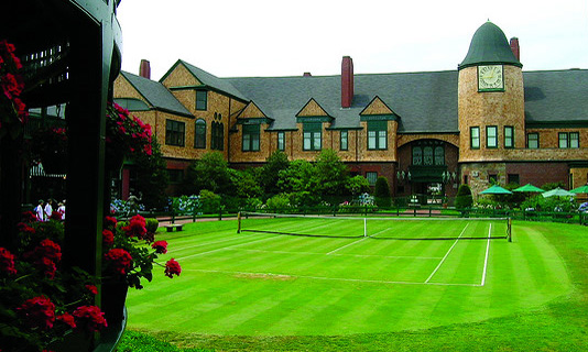 Horseshoe court at the hall of fame